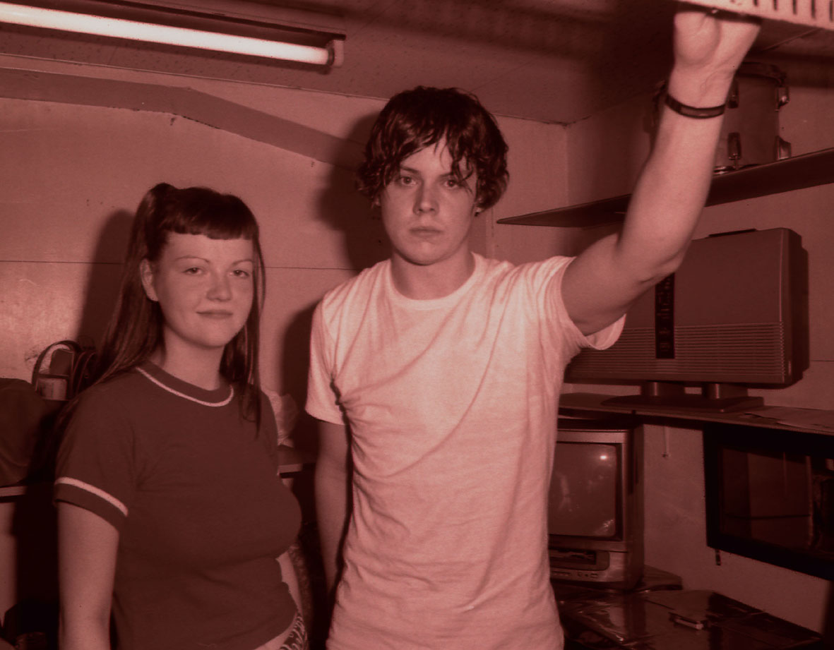 The White Stripes, in 2001, first tour of Japan. They played to a very small audience (about 10 to 20), but their playing was fantastic! Photo taken at the back room of the club (Shinjuku Jam, Tokyo) Japan